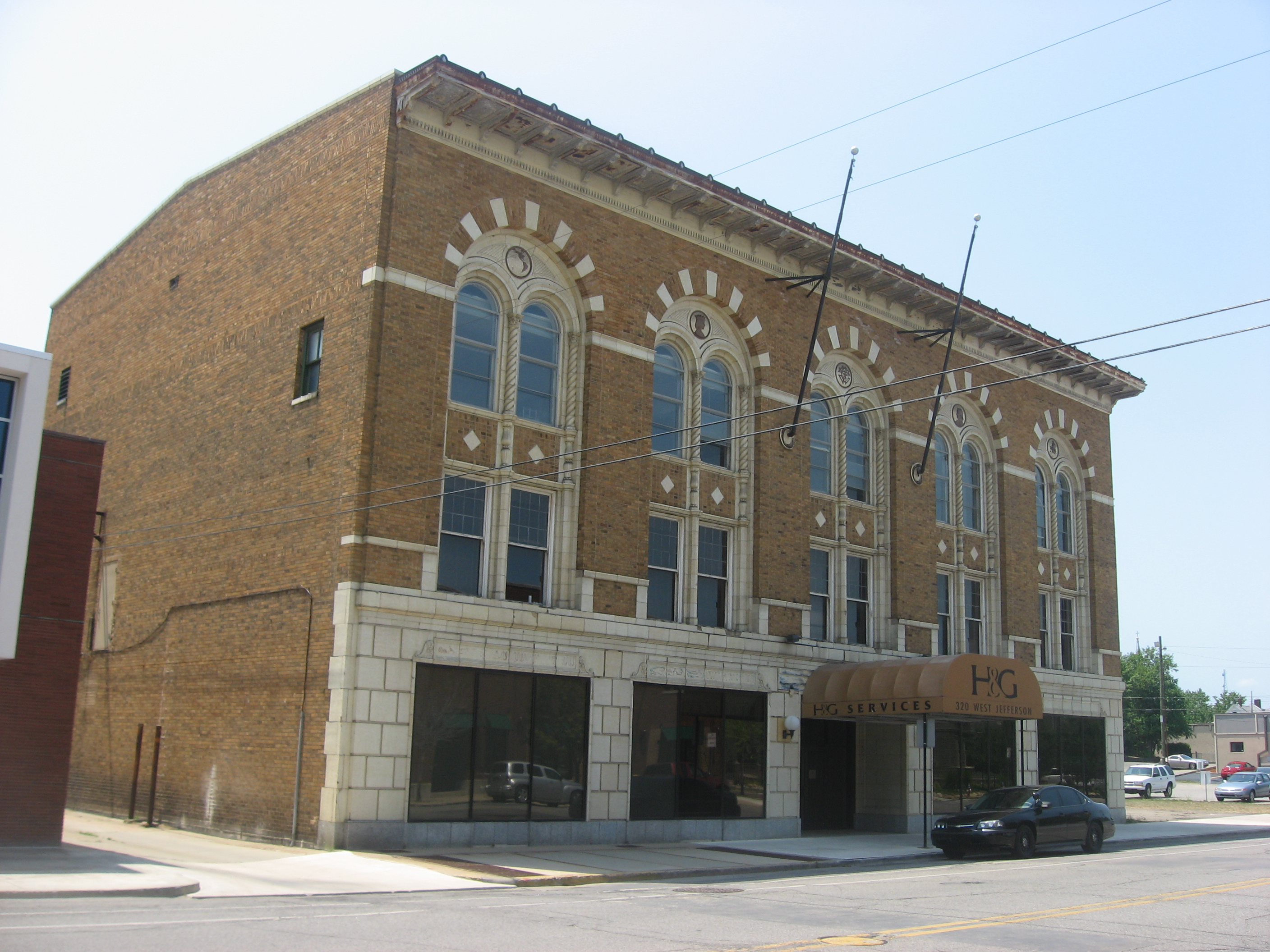 Front and eastern side of the Knights of Columbus-Indiana Club, located at 320 W. Jefferson Boulevard in South Bend, Indiana, United States. Built in 1924, it is listed on the National Register of Historic Places, and it is part of a Register-listed historic district, the West Washington Historic District.